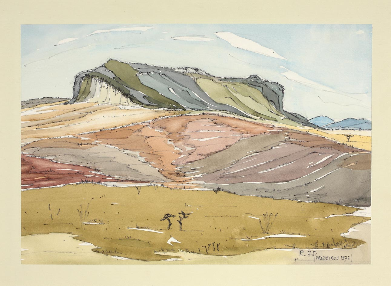 Ritter. Chapada dos Veadeiros. Aquarela